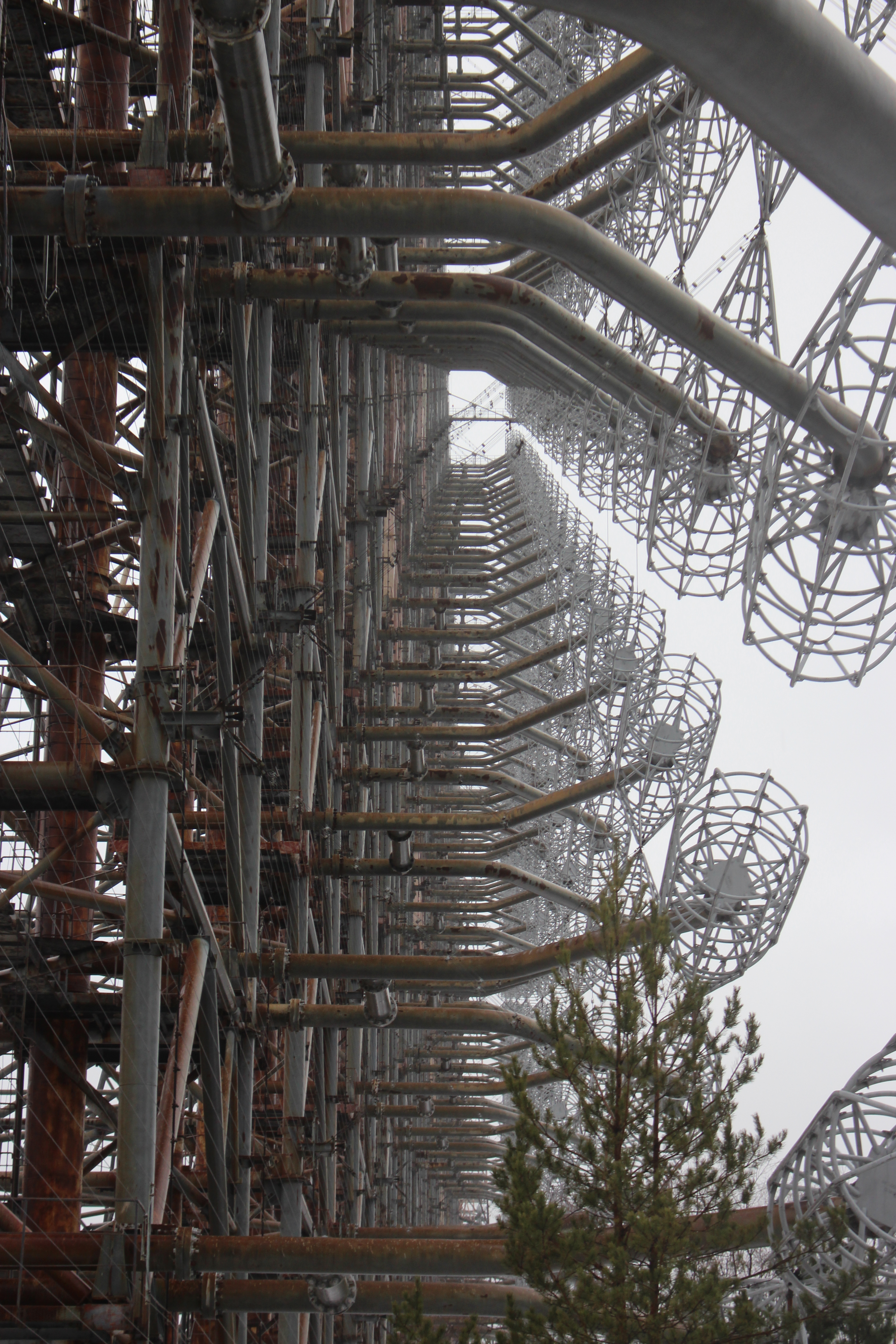 Former Soviet Duga radar station within the Chernobyl Exclusion Zone, today Ukraine.